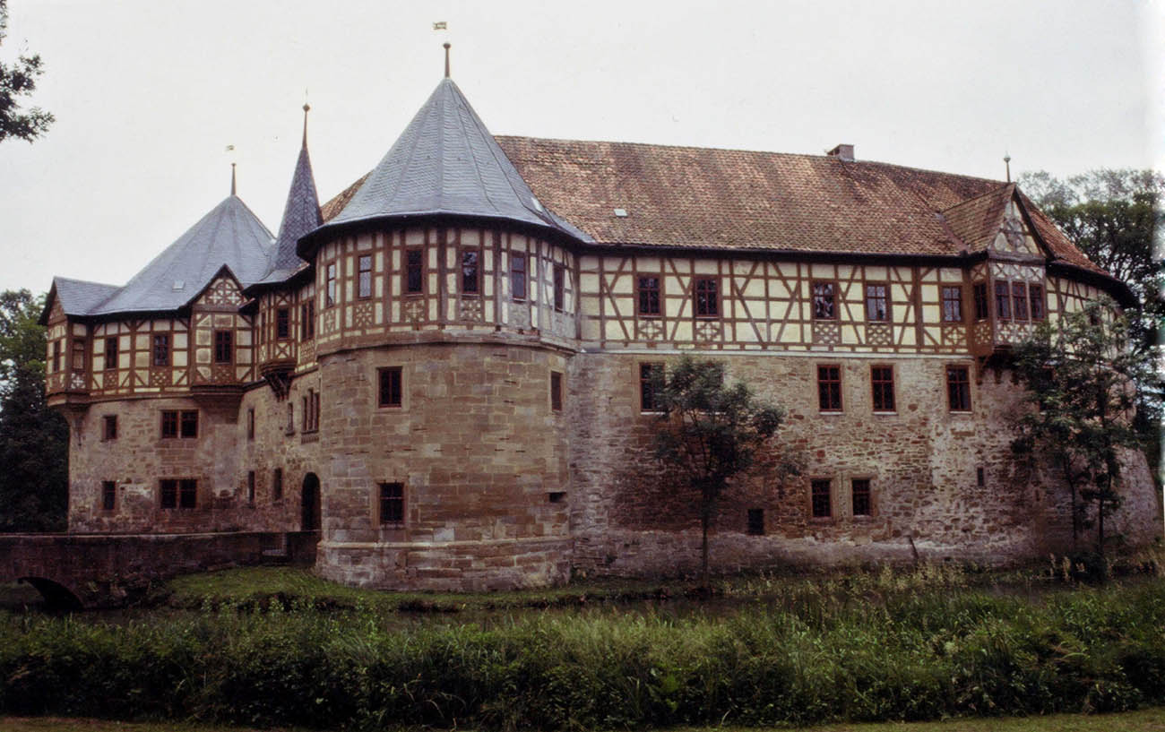 Photo of Irmelshausen